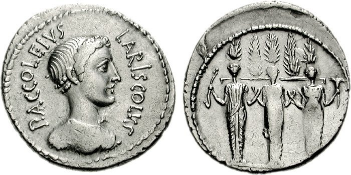 Denarius minted by Publius Accoleius Lariscolus in September–December 43 B.C., depicting Diana Nemorensis (or possibly Acca Larentia); on reverse the triple cult statue of Diana Nemorensis supporting a beam holding five cypress trees